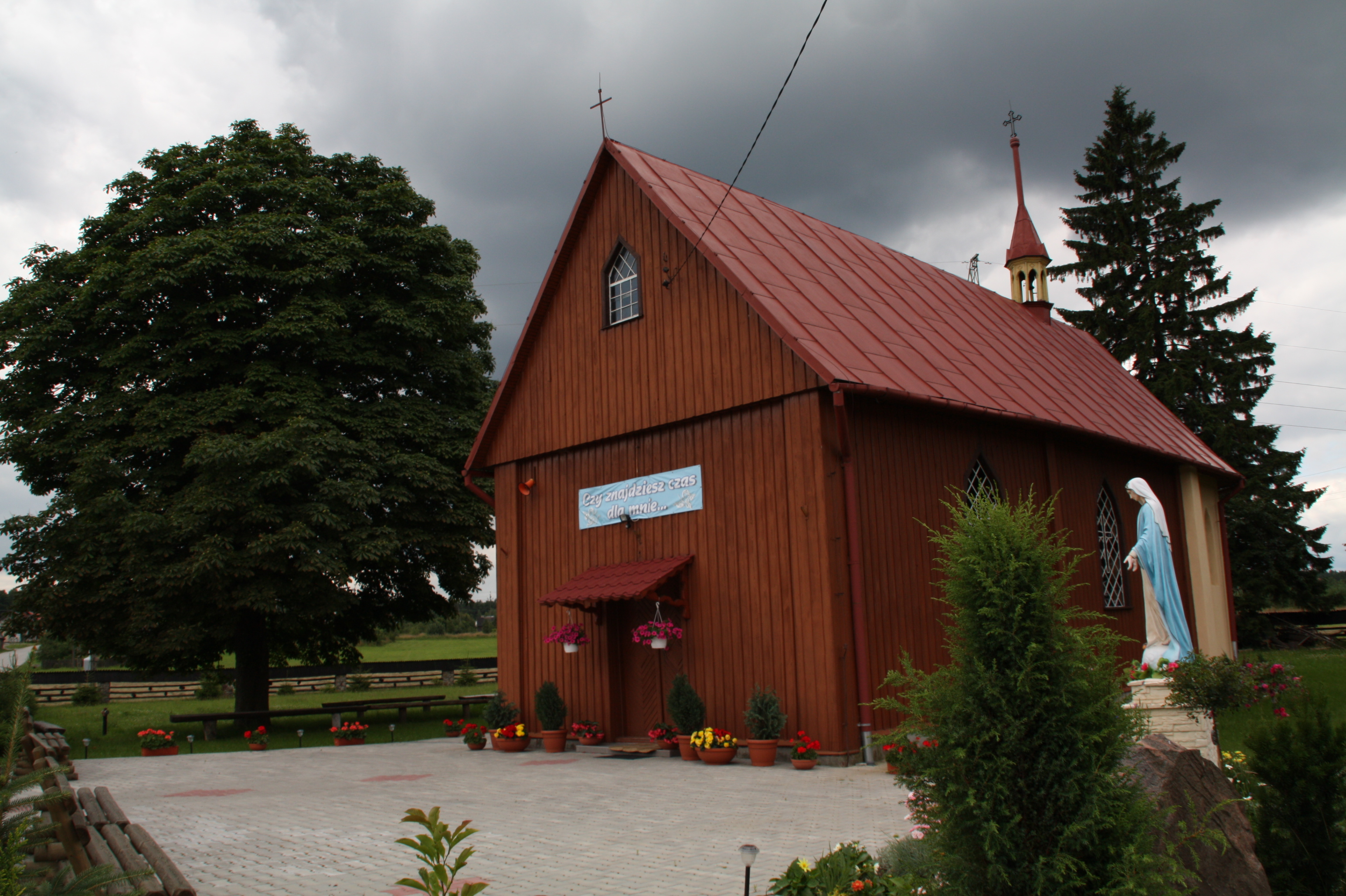 St. Sophia's Chappel in the village of Rataje near Starachowice